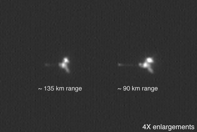 NASA's Mars Odyssey spacecraft appears twice in the same frame in this image from the Mars Orbiter Camera aboard NASA's Mars Global Surveyor. The camera's successful imaging of Odyssey and of the European Space Agency's Mars Express in April 2005 produced the first pictures of any spacecraft orbiting Mars taken by another spacecraft orbiting Mars. Mars Global Surveyor and Mars Odyssey are both in nearly circular, near-polar orbits. Odyssey is in an orbit slightly higher than that of Global Surveyor in order to preclude the possibility of a collision. However, the two spacecraft occasionally come as close together as 15 kilometers (9 miles). The images were obtained by the Mars Global Surveyor operations teamsat Lockheed Martin Space System, Denver; JPL and Malin Space ScienceSystems. The two views of Mars Odyssey in this image were acquired a little under 7.5 seconds apart as Odyssey receded from a close flyby of Mars Global Surveyor. The geometry of the flyby (see Figure 1) and the camera's way of acquiring an image line-by-line resulted in the two views of Odyssey in the same frame. The first view (right) was taken when Odyssey was about 90 kilometers (56 miles) from Global Surveyor and moving more rapidly than Global Surveyor was rotating, as seen from Global Surveyor. A few seconds later, Odyssey was farther away -- about 135 kilometers (84 miles) -- and appeared to be moving more slowly. In this second view of Odyssey (left), the Mars Orbiter Camera's field-of-view overtook Odyssey. The Mars Orbiter Camera can resolve features on the surface of Mars as small as a few meters or yards across from Mars Global Surveyor's orbital altitude of 350 to 405 kilometers (217 to 252 miles). From a distance of 100 kilometers (62 miles), the camera would be able to resolve features substantially smaller than 1 meter or yard across.